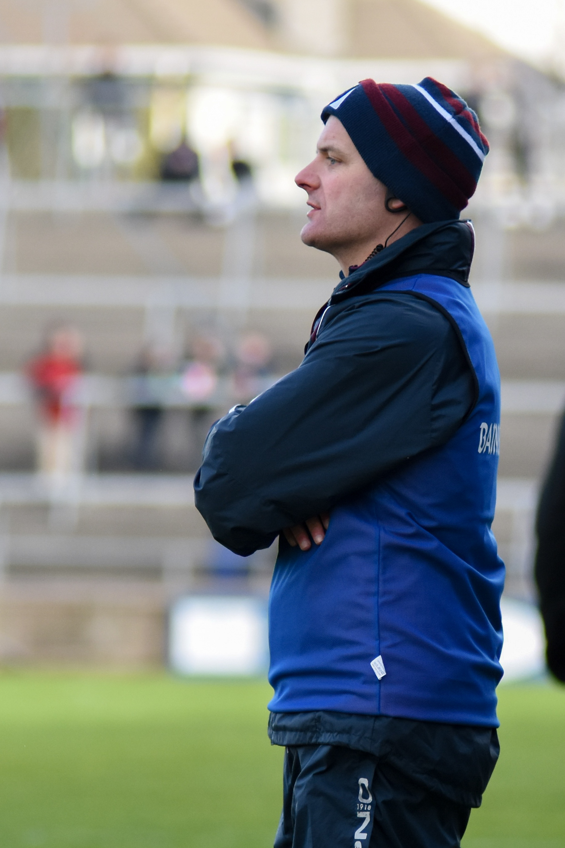 Micheál Donoghue overseeing his Galway side in the 2016 National Hurling League group game against Cork at Pearse Stadium